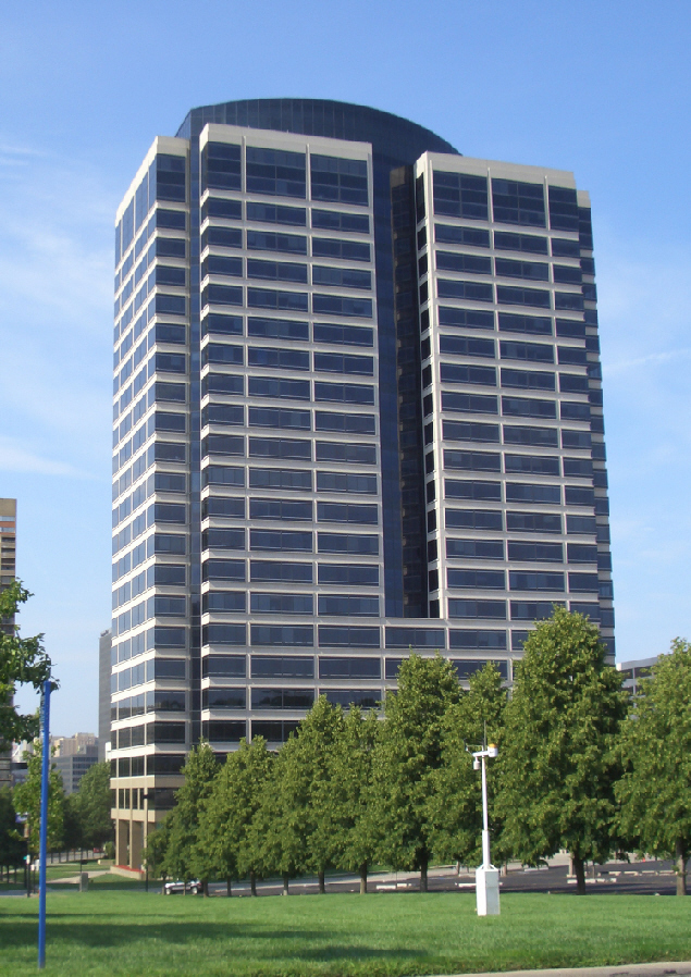 2555 Grand (skyscraper), Kansas City, Missouri; designed by Zimmer Gunsul Frasca Architects